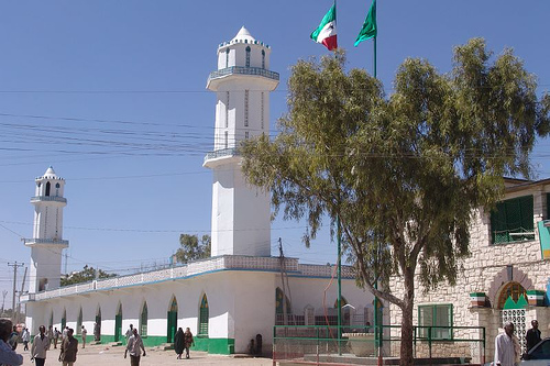 Hargeisa, Somalia. Image taken by Charles Fred on flickr. The creator has granted GFDL licensing and permission for use in the wikimedia project.